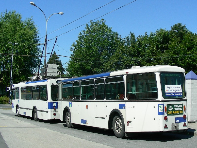 Trailer no. 971 behind NAW/Lauber BT 5-25 no. 783